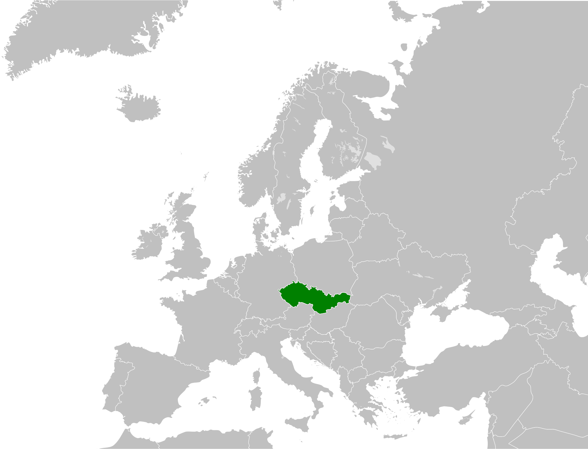 Location of the Czech and Slovak Federal Republic from 1992 to 1993 in Europe